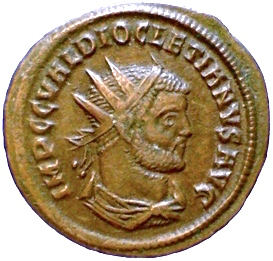 Antoninianus of Diocletian